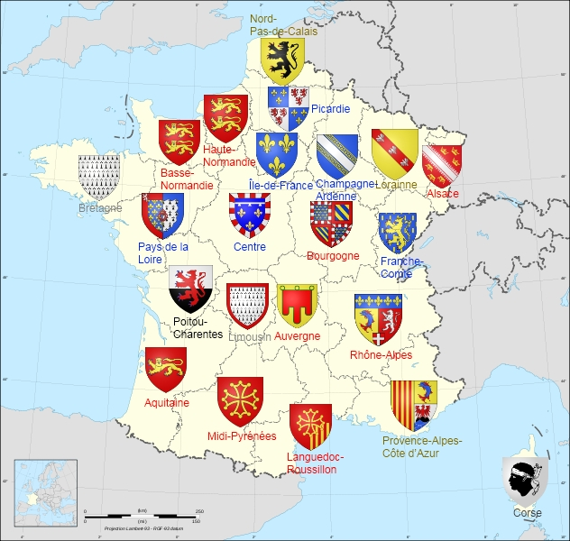 Coat of arms of the French region Provence-Alpes-Côte d'Azur Blazon (incomplete): ... argent, an eagle displayed crowned gules standing upon three rocks sable issuing from the sea azure in base.